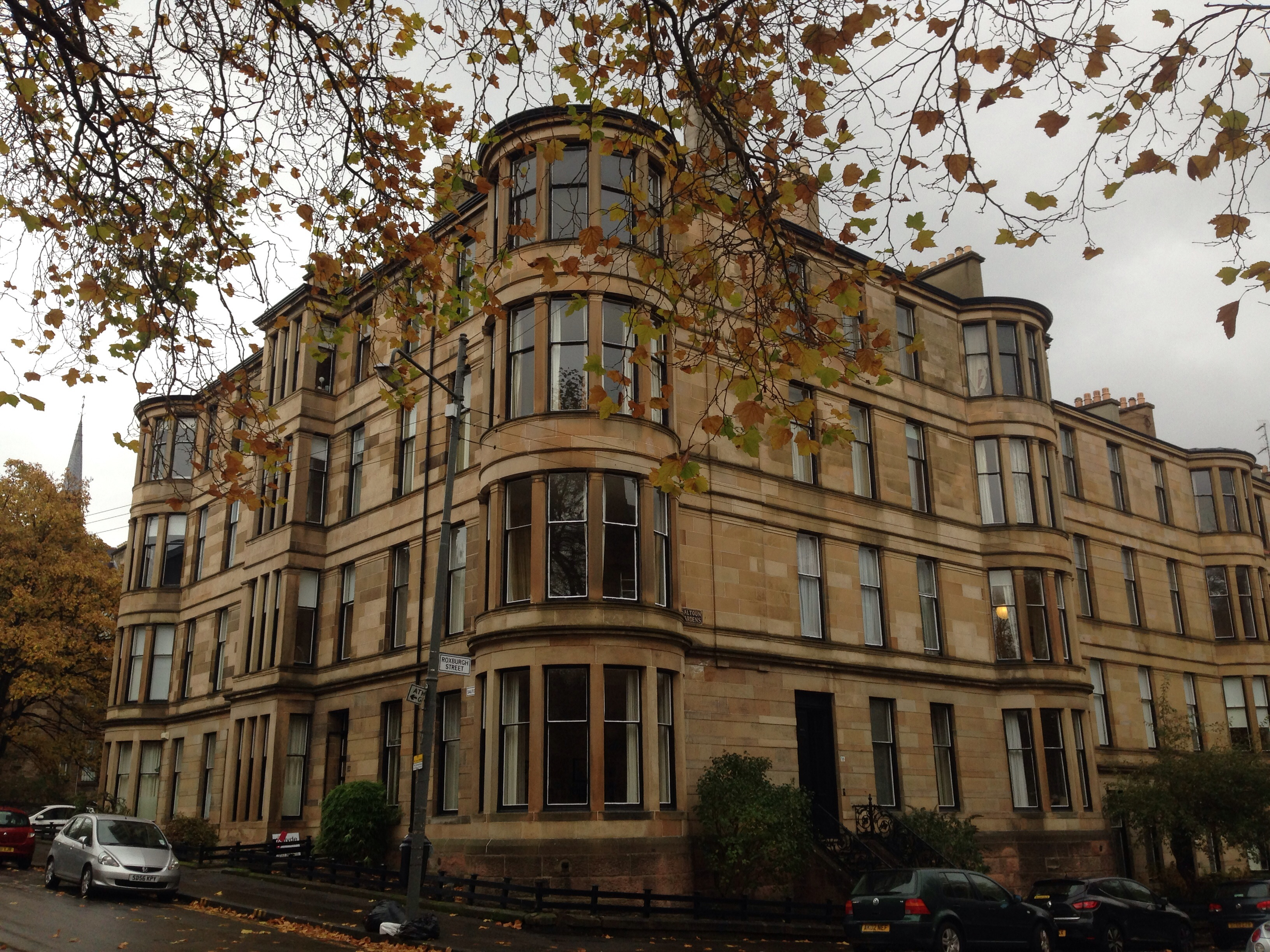 The tenement building depicted in Avril Paton's 1993 painting "Windows in the West". It is located at 35 Saltoun Street on the corner of Roxburgh Street in Dowanhill.